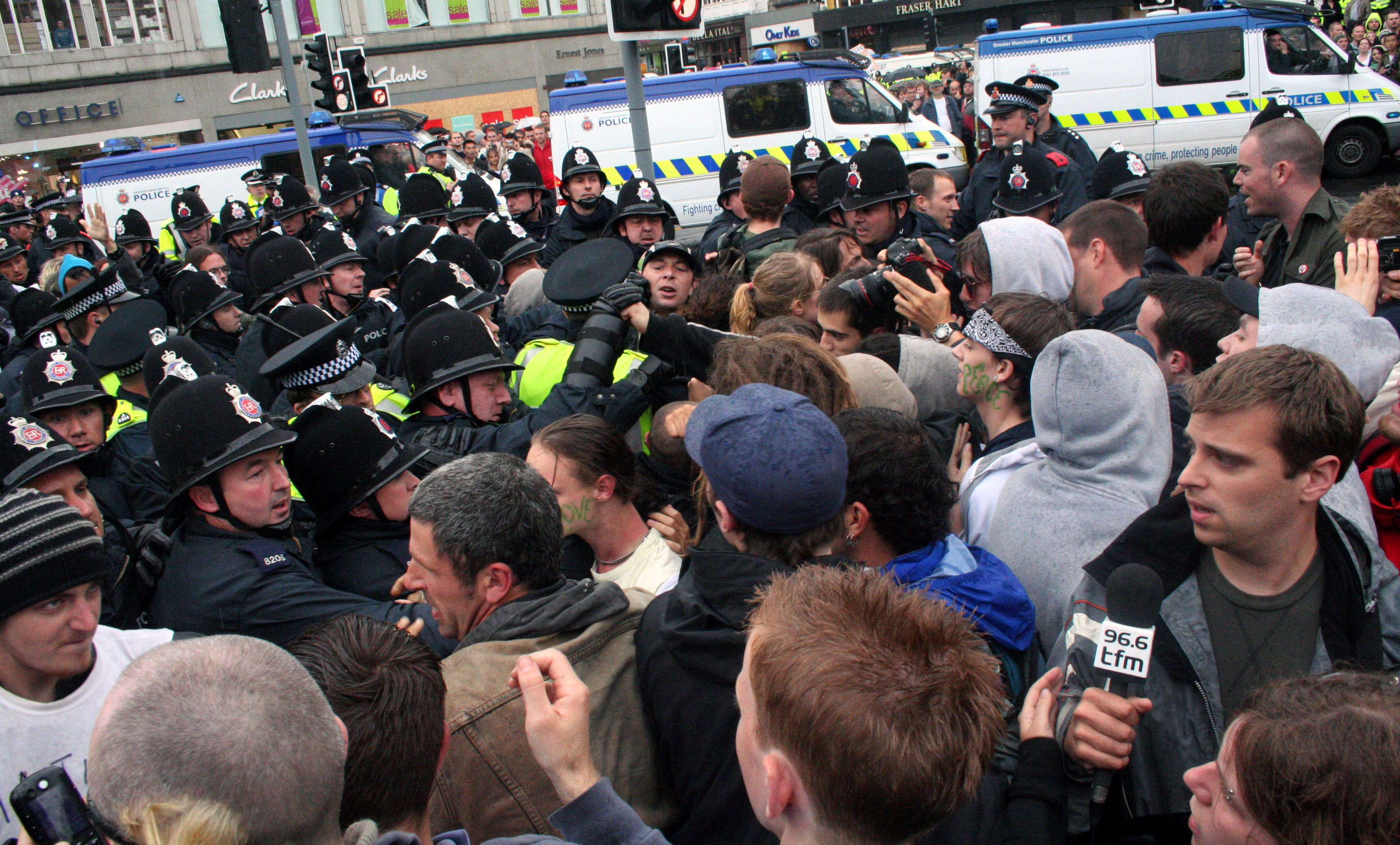 Police and protesters clash in Edinburgh at the start of the 2005 G8 protests